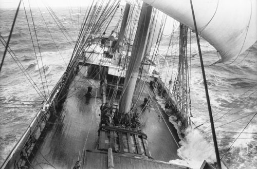 Original description: "The 'Grace Harwar' sailing in a storm Reproduction ID: N61308 Maker: Alan Villiers Date: 1929 Villiers collection"